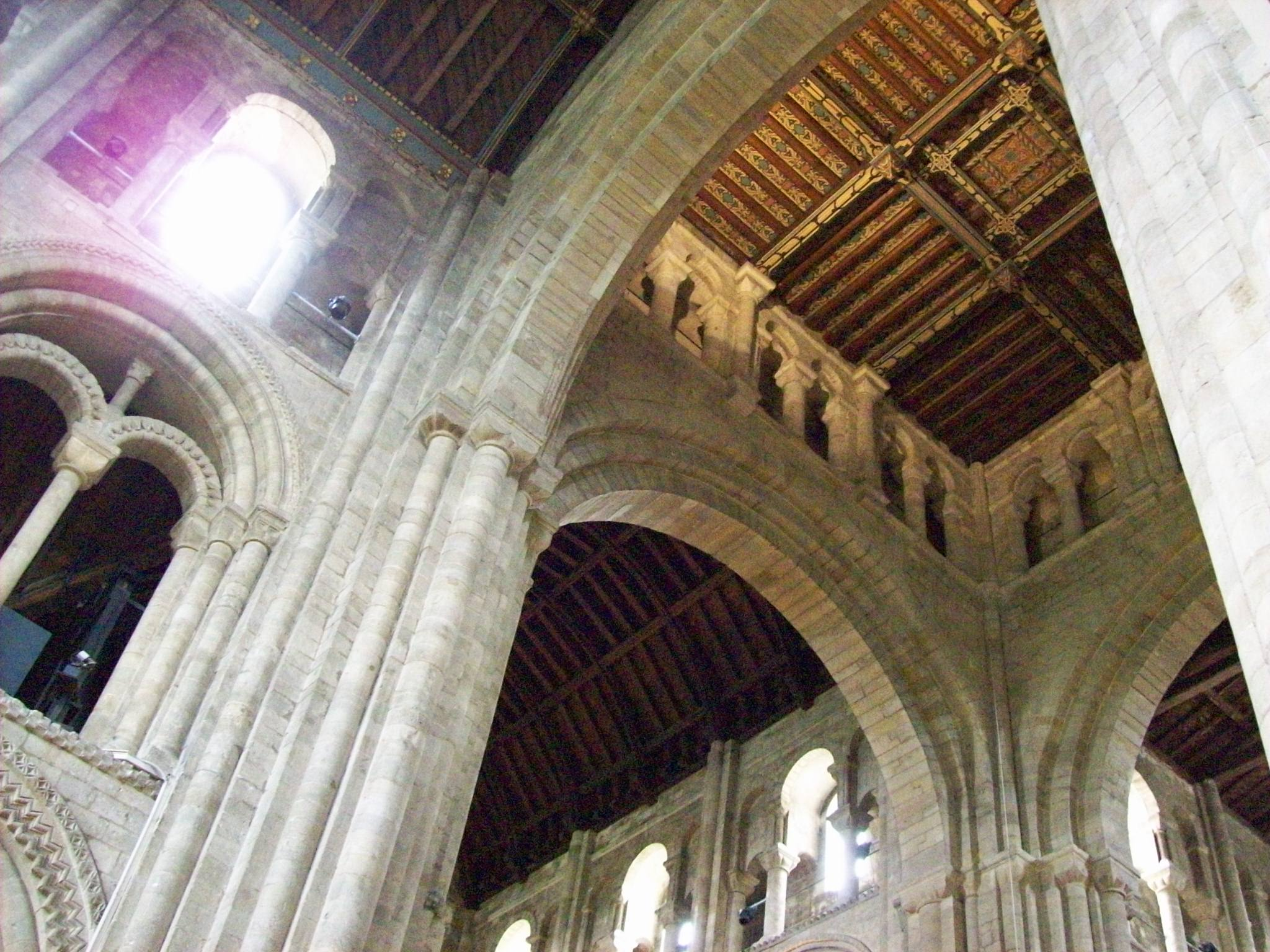 Romsey Abbey, crossing